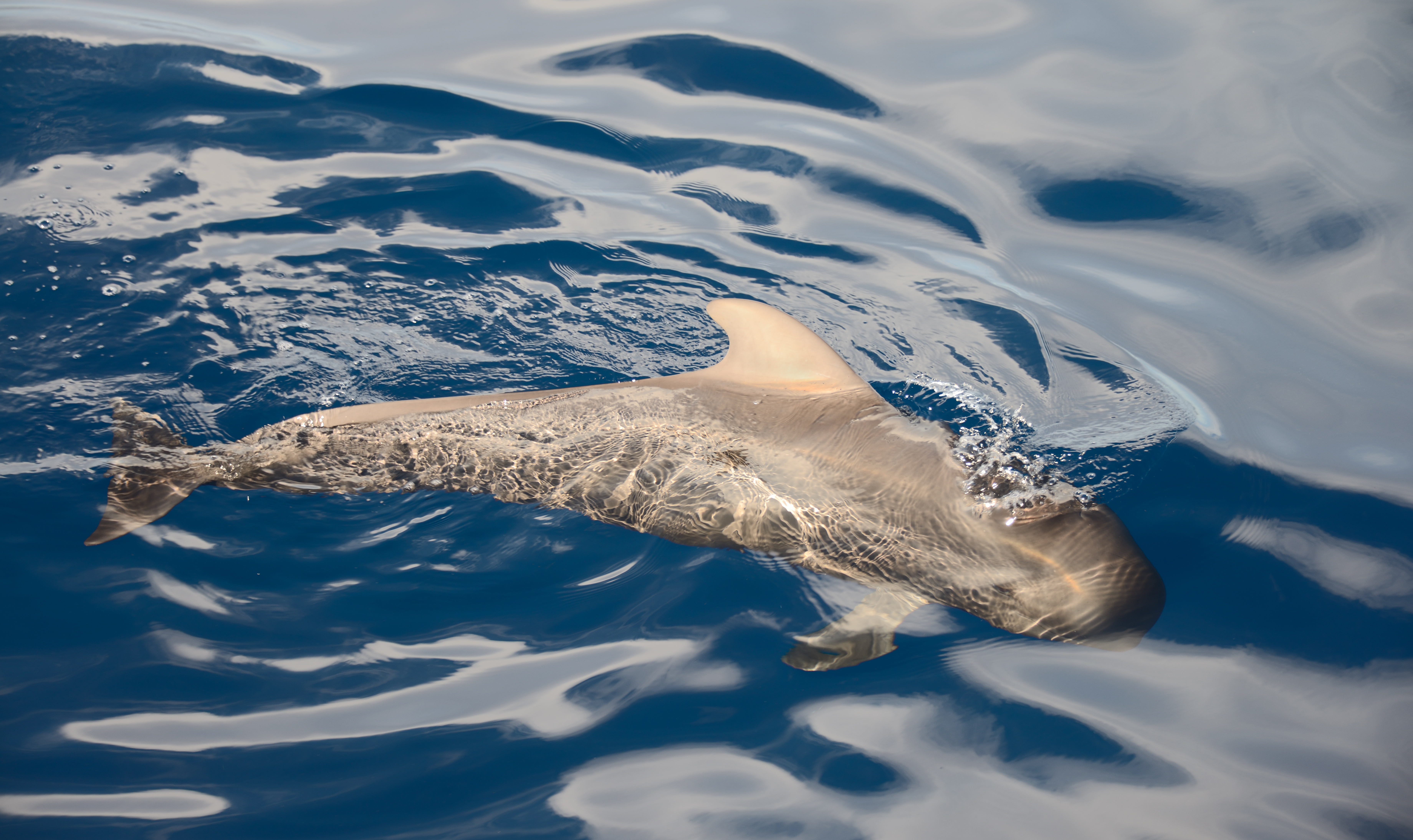 A Short-finned Pilot Whale (Globicephala macrorhynchus) seen along the western coast of Tenerife, Canary Islands, in December 2012.